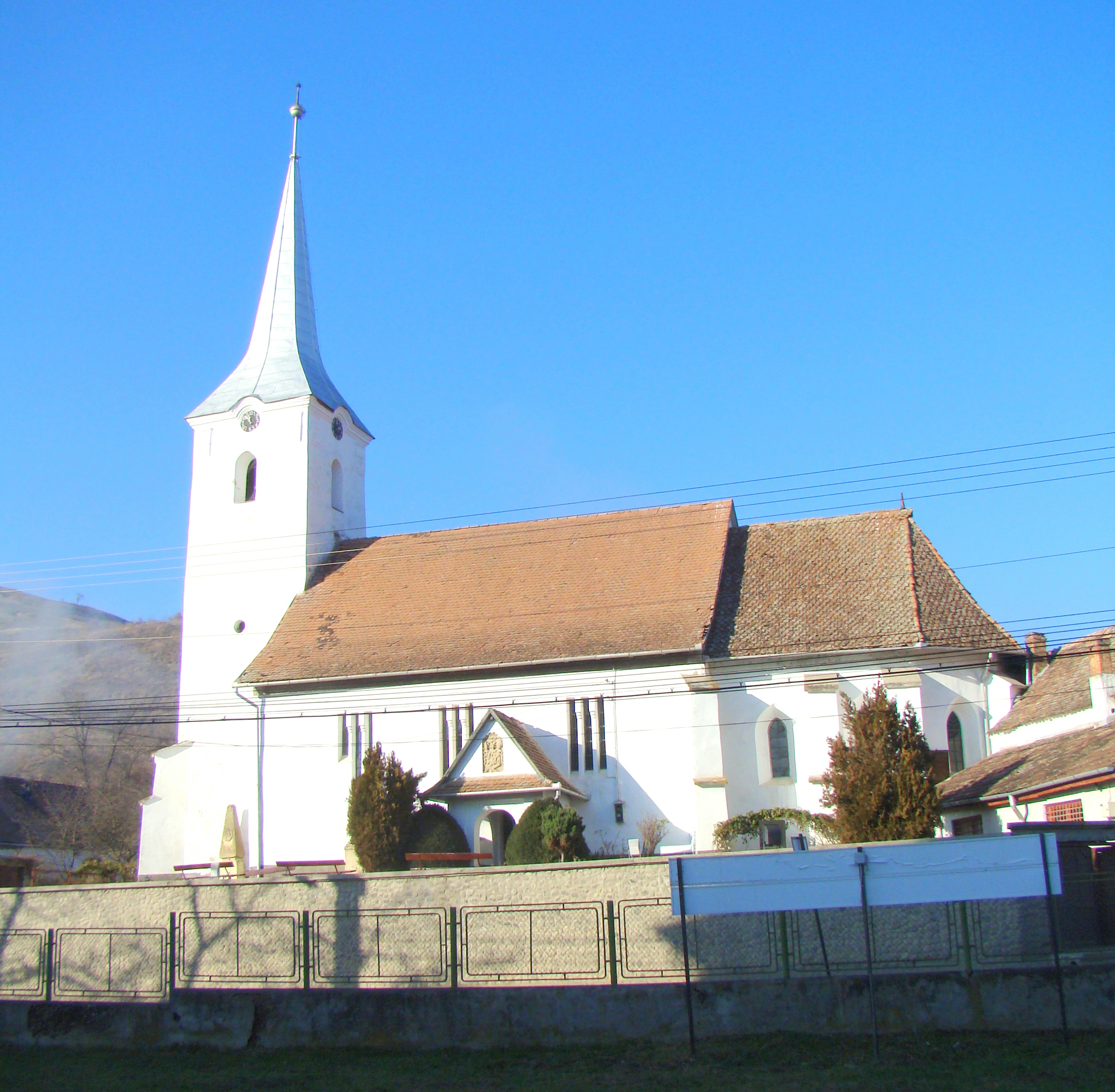 Reformed church in Sângeorgiu de Pădure, Mureş county, Romania